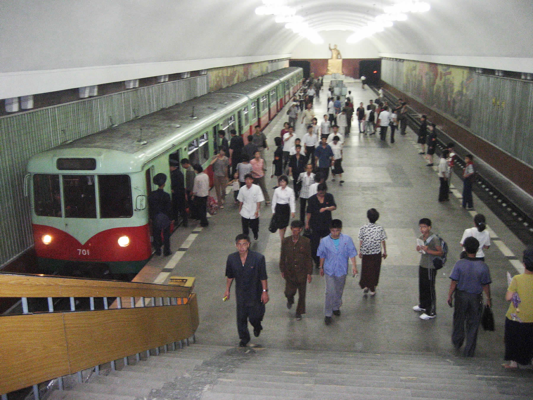 Triumphal Arch Station in the Pyongyang Subway.